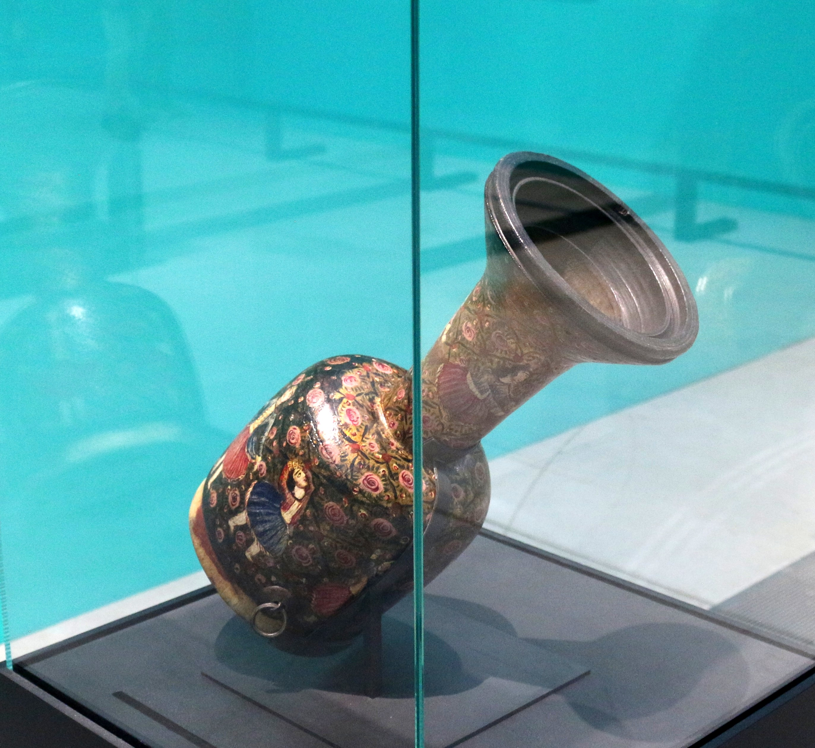 Persian percussion instrument TOMBAK (also known as TONBAK, DOMBAK and ZARB) from the 19th century. -- Photo: Persian Dutch Network